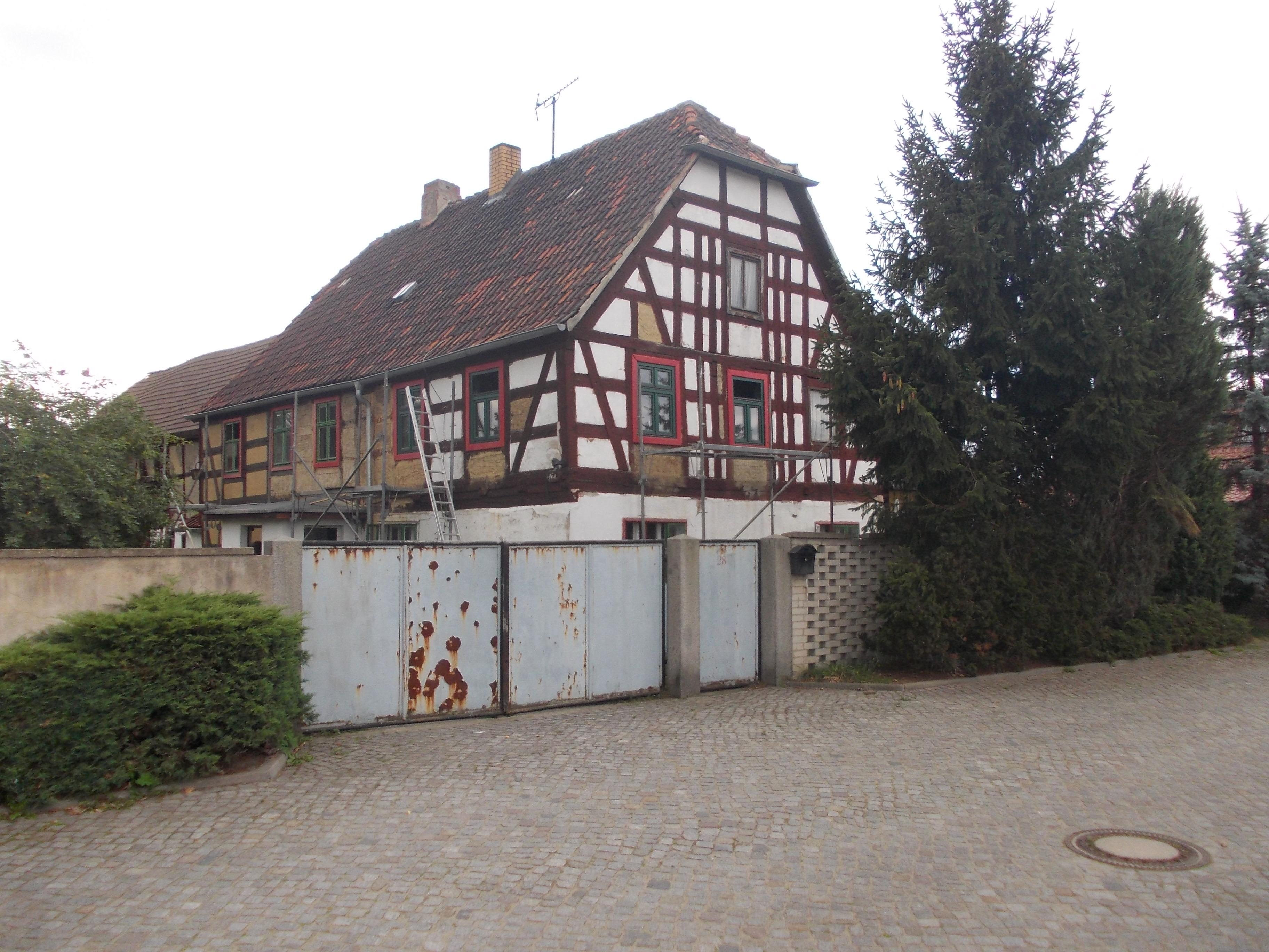 No. 28, Lindenstrasse in Rehfeld (Falkenberg/Elster, Brandenburg)